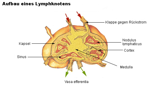 Lymph node